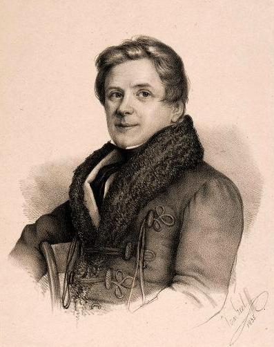 Portrait of Franz Hünten